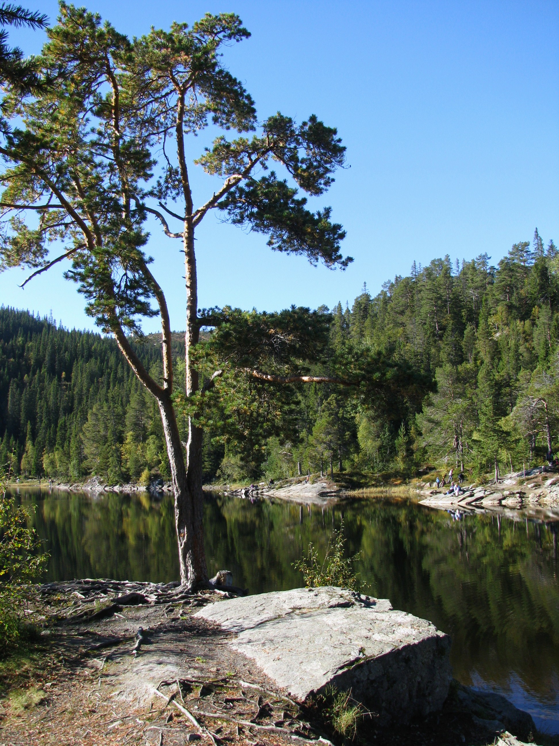 Bymarka, Trondheim, a forest area with many lakes, popular among the locals in both summer and winter (skiing). Late september near Kobberdammen lake.